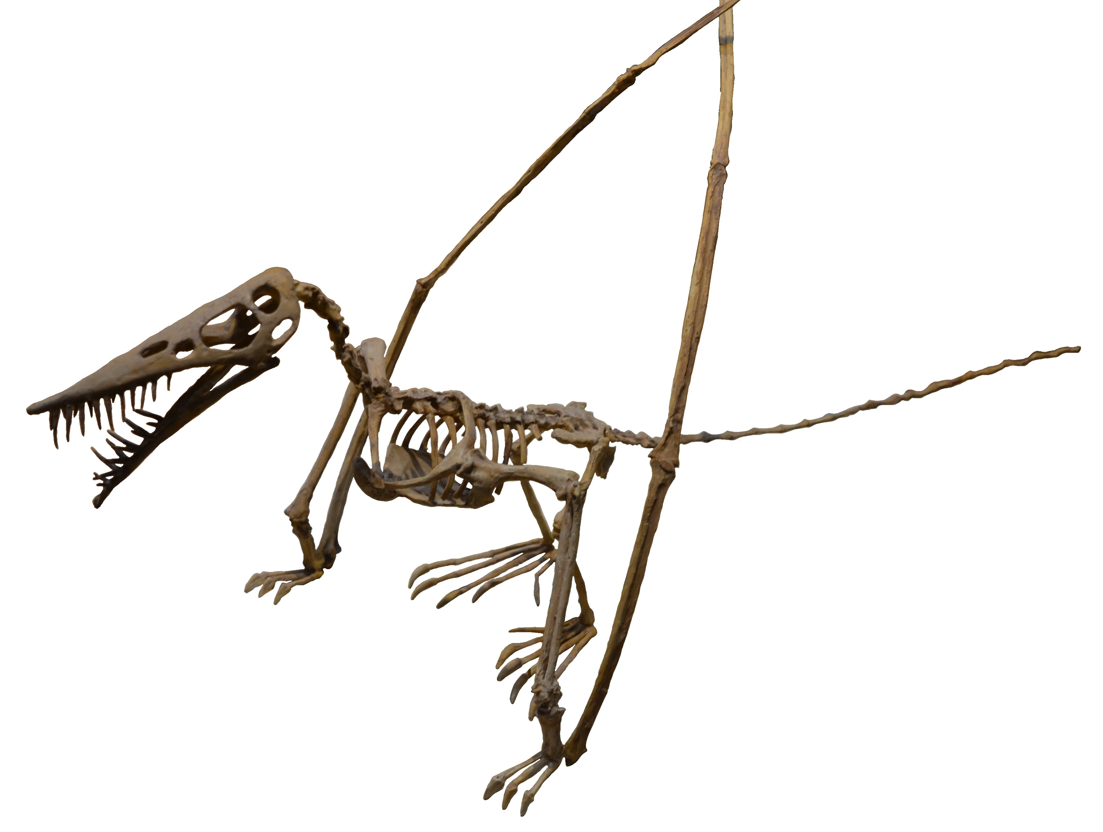 Wyoming Dinosaur Center